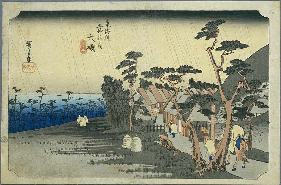 Oiso on the Tokaido, ukiyo-e prints by Hiroshige